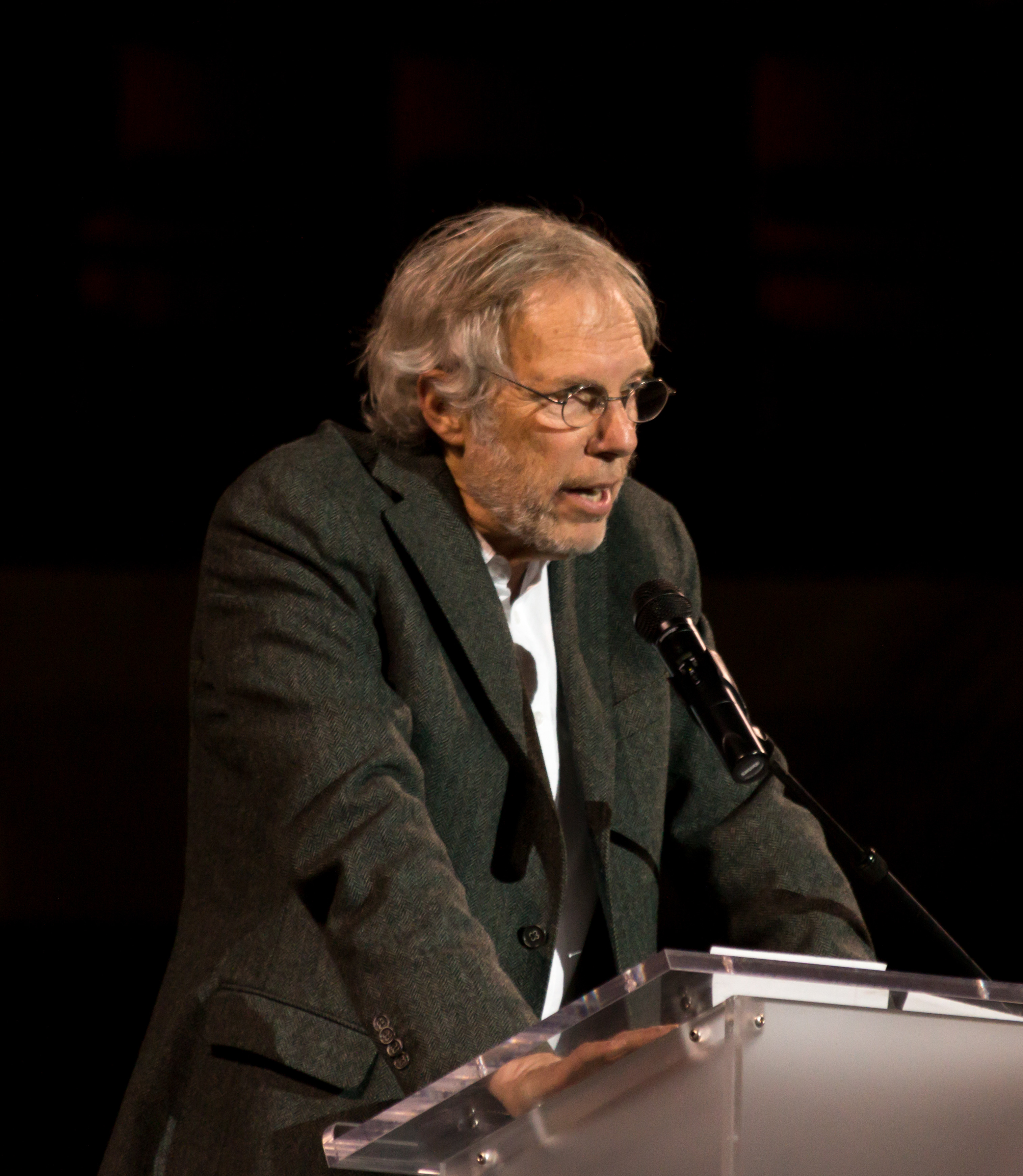 Robert Pollin gives the audience an introduction of Noam Chomsky's life and work preceding a talk about humanity's prospects for survival in Amherst, Massachusetts, United States on 13 April 2017.